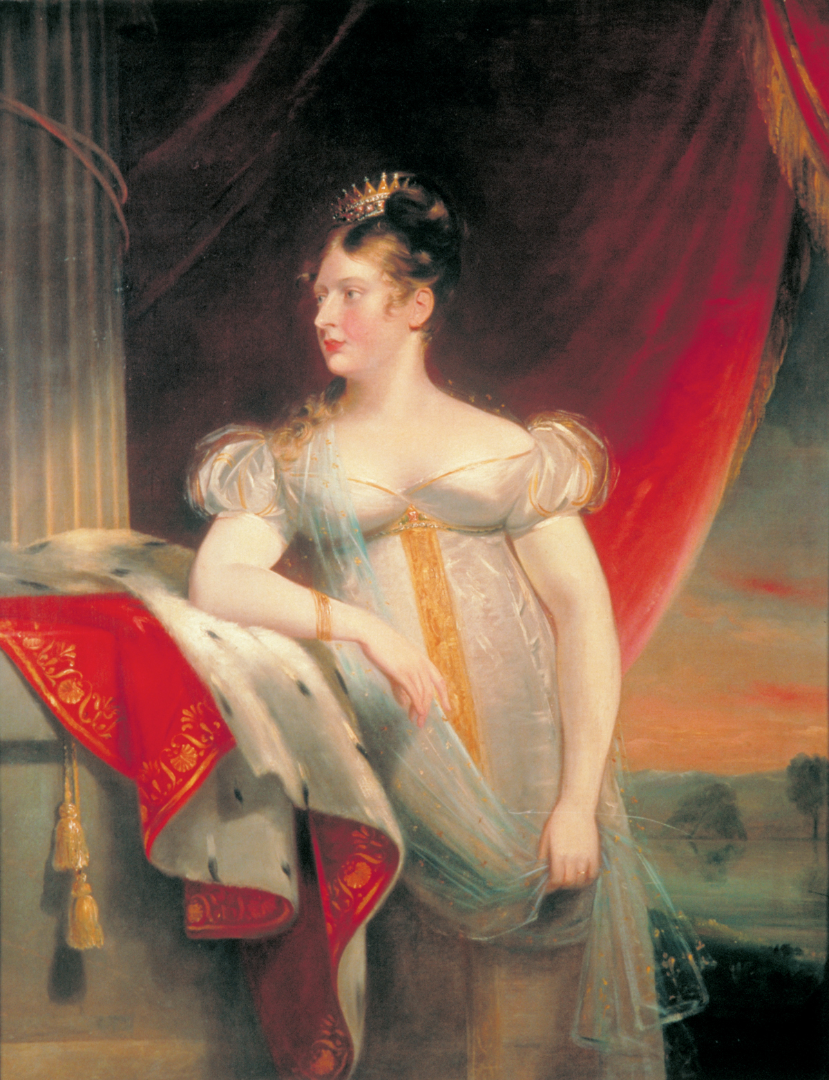 Charlotte of Wales, heiress to the British crown